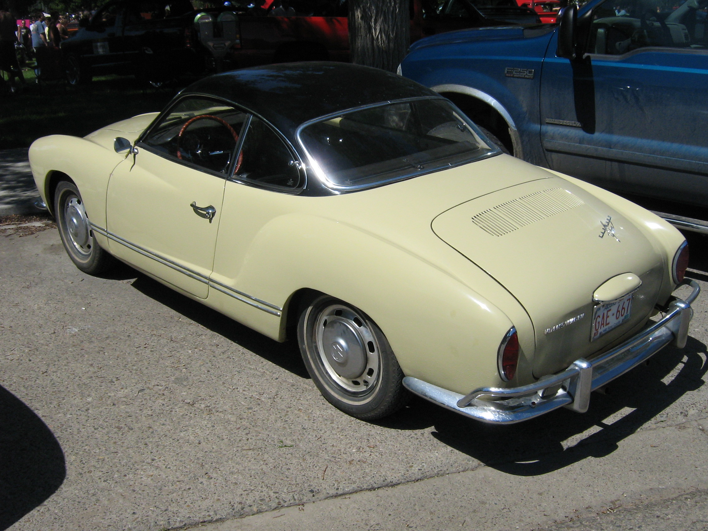 1967 Volkswagen Karmann Ghia seen outside the Lethbridge Street Wheelers Show and Shine